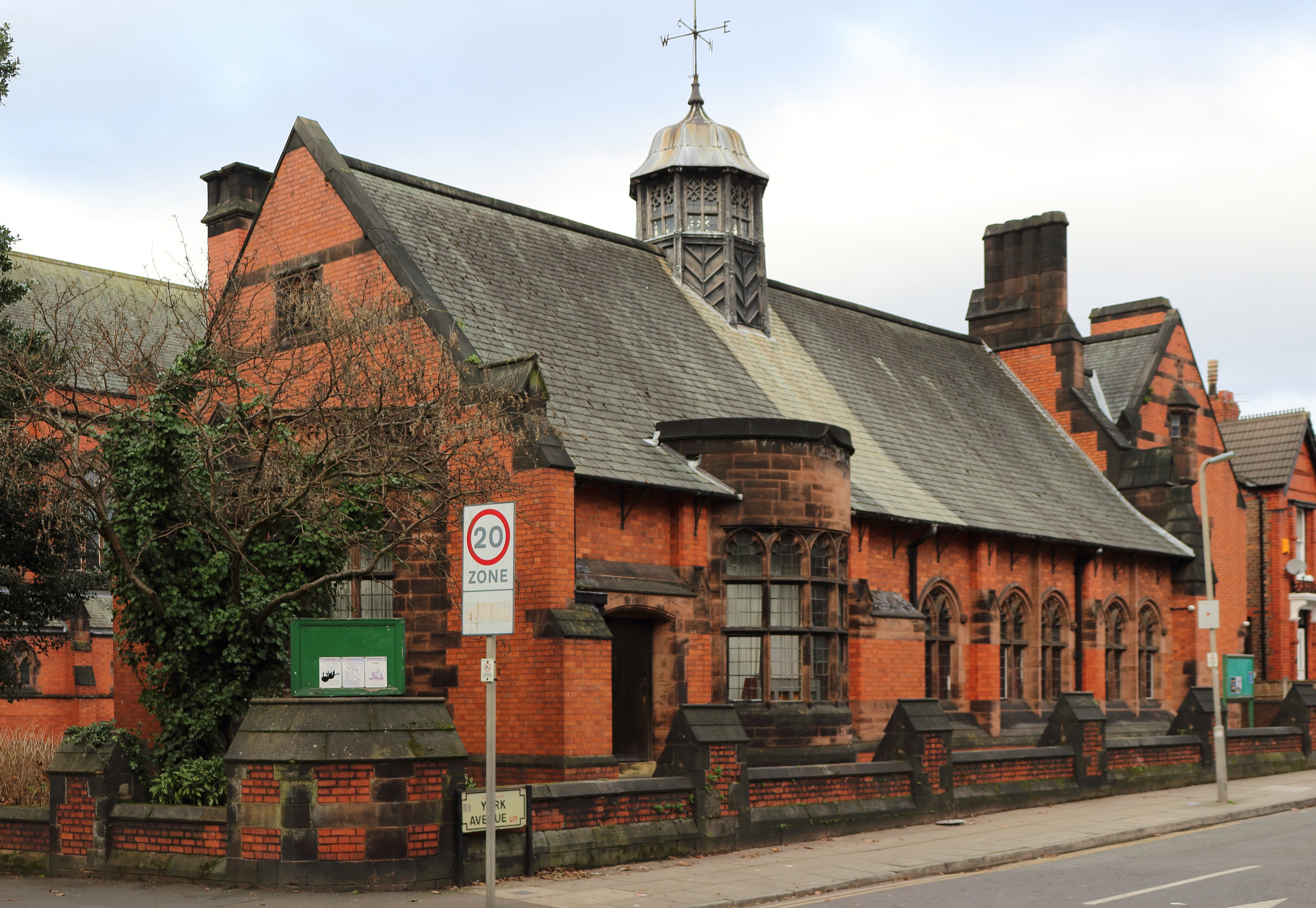 Ullet Road Unitarian Church hall is a Grade I listed building; eastern elevation along York Avenue